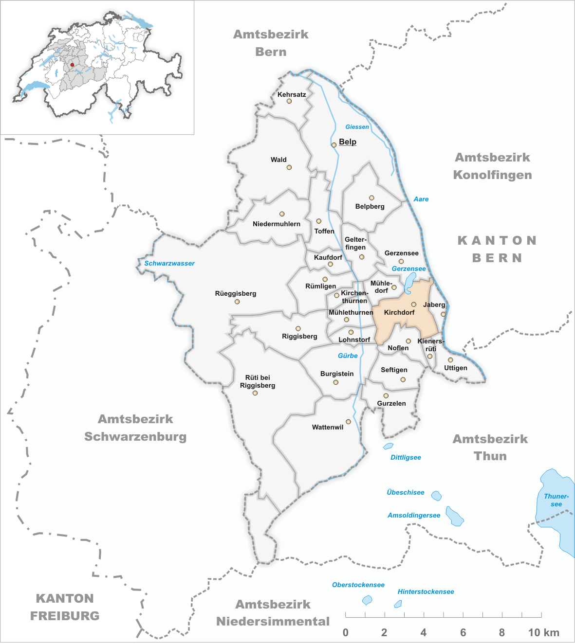 Municipality Kirchdorf